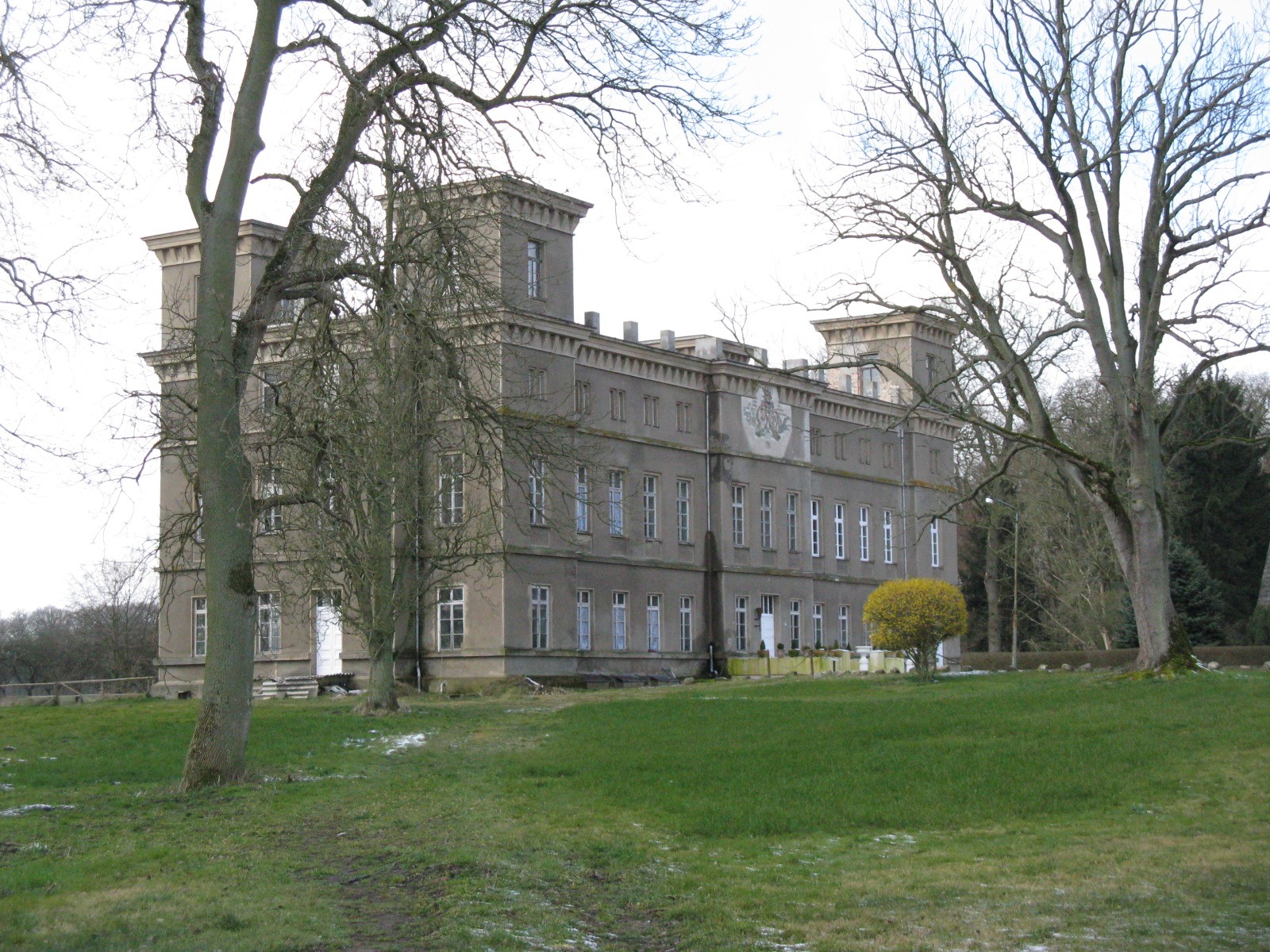 Castle in Bülow, Mecklenburg-Vorpommern, Germany